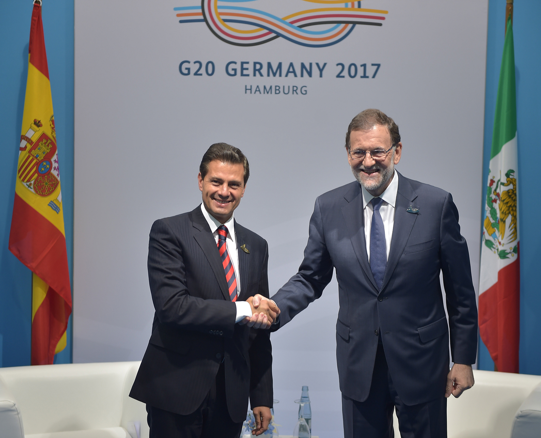 Enrique Peña Nieto and Mariano Rajoy at the 2017 G-20 Hamburg summit